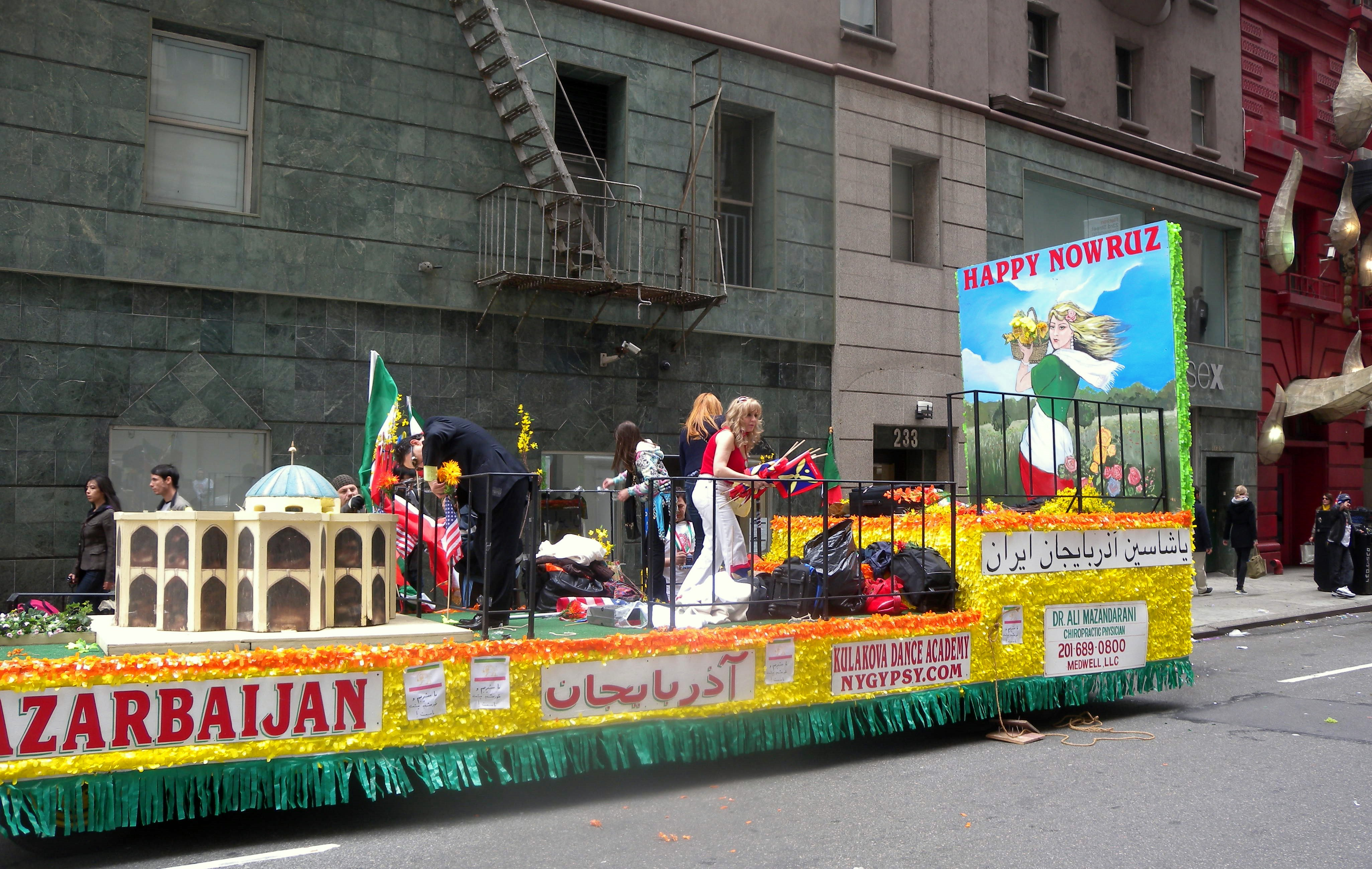 Looking east across 27th St from near 5th Ave at Azerbaijan float for Iranian celebration parade on a cloudy afternoon.